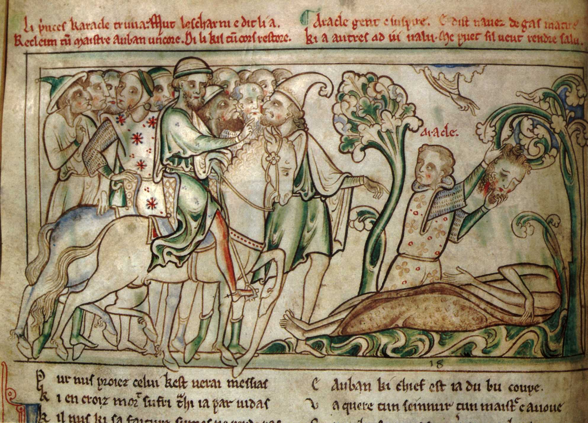 Heraclius takes down St. Alban's head from a 13th Century manuscript of The Life of St. Alban